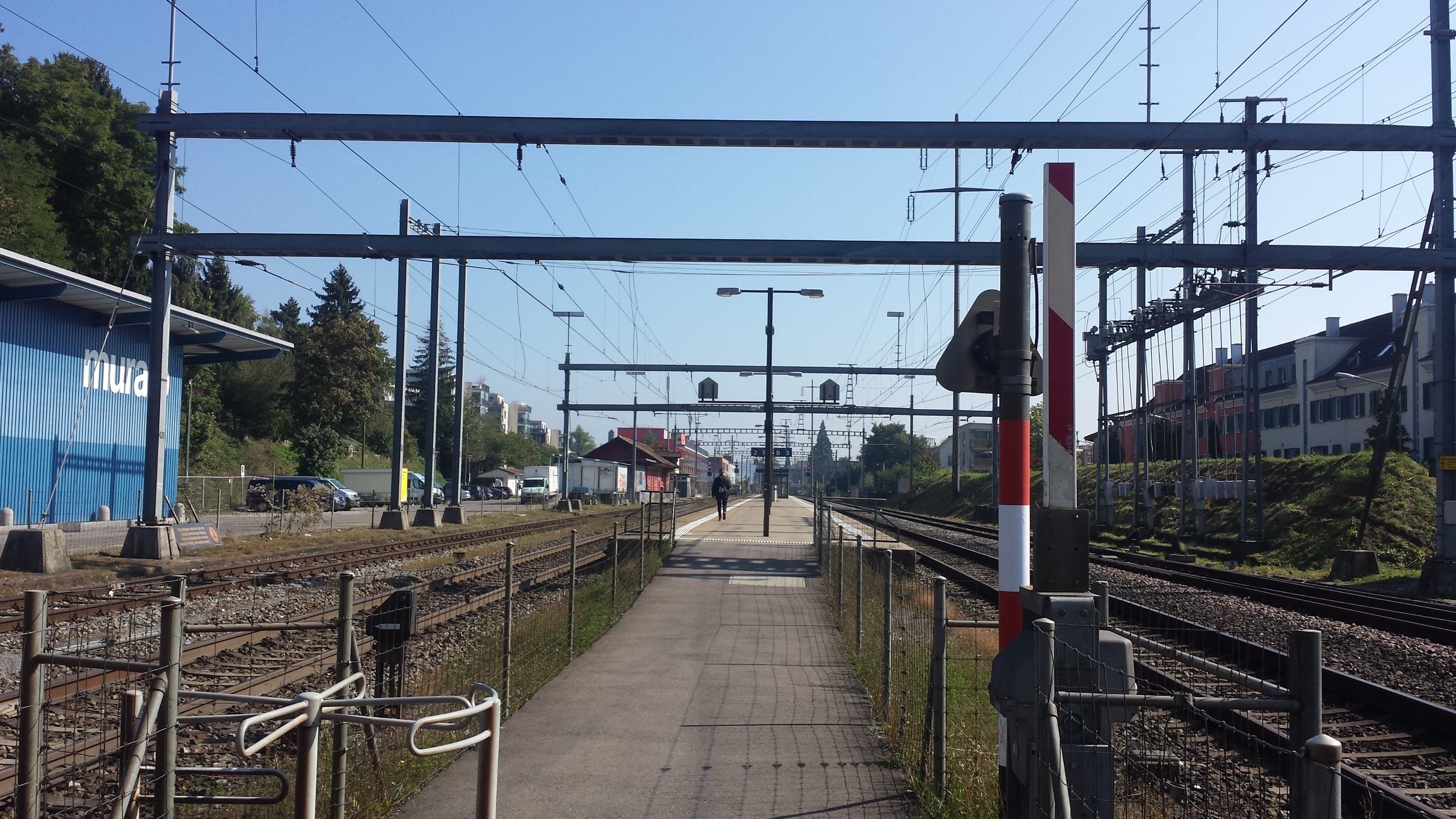 The platform at Zürich Seebach railway station looking east